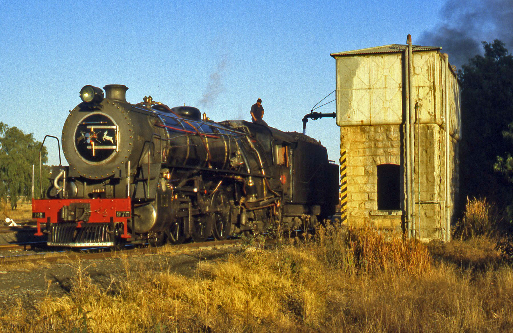 SAR Class 16DA 876 (4-6-2) Henschel Location: Thaba Nchu